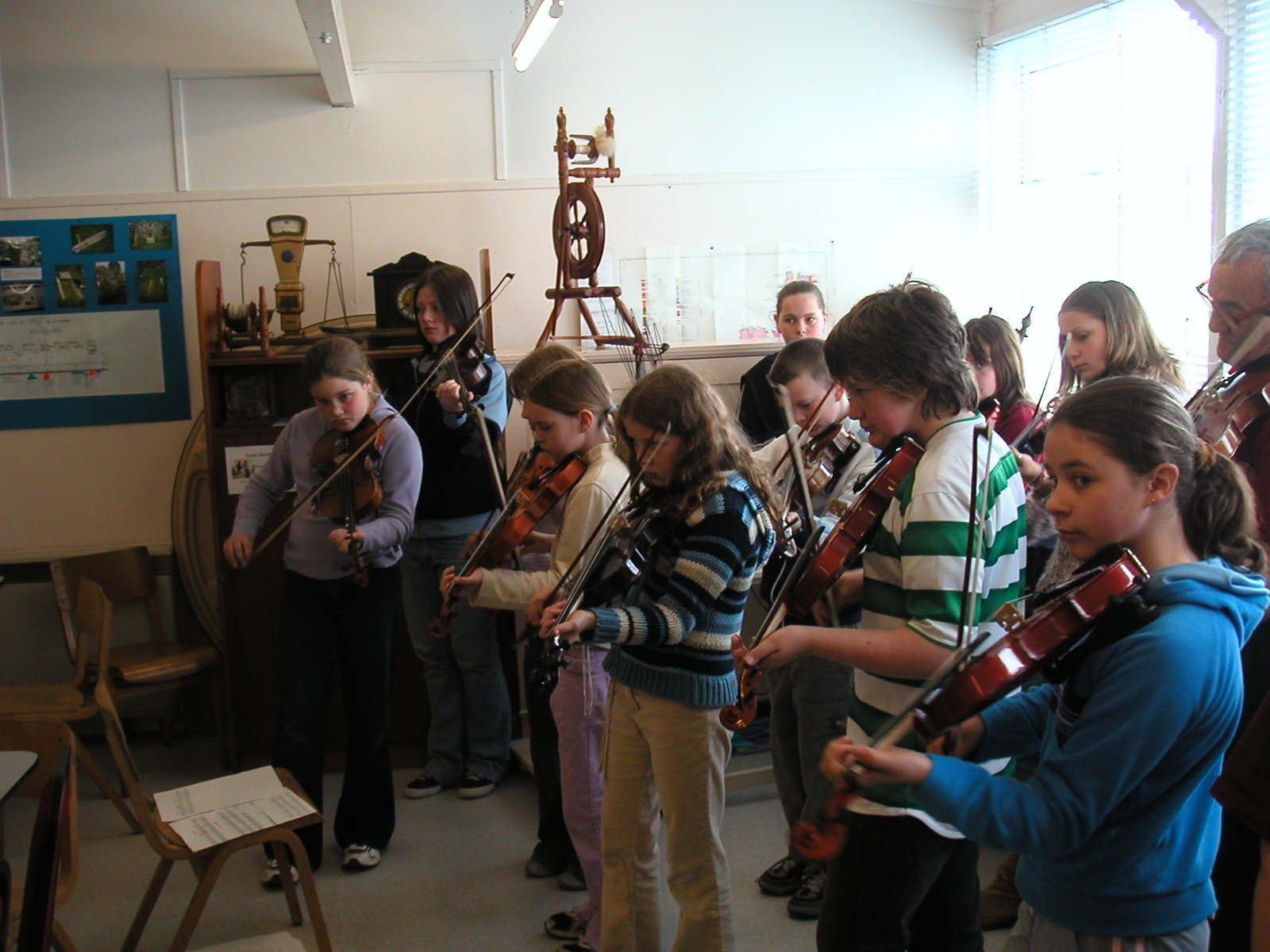 Shetland schoolchildren fiddlers age 9-13 Haraldswick, Unst, Shetland 2004